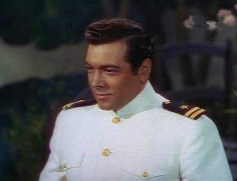 Image of Mario Lanza used for promotional purposes for the film Madama Butterfly.